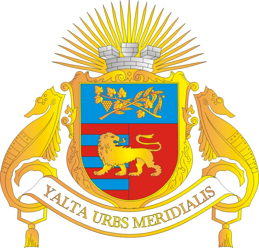 The coat of arms of the city of Yalta, Ukraine.